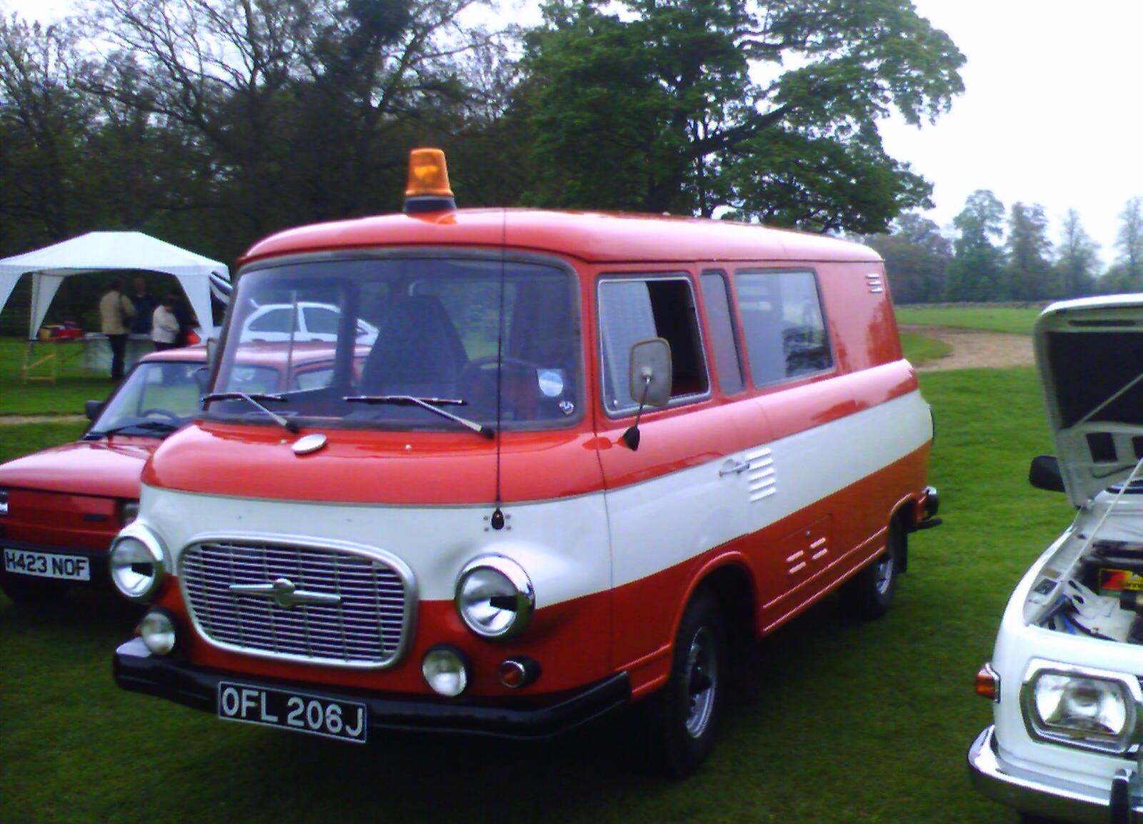 Barkas van at the Wartburg/Trabant/IFA Club UK Rally 2006 in Stanford Hall. Photo by --Asterion talk to me 20:18, 7 May 2006 (UTC)